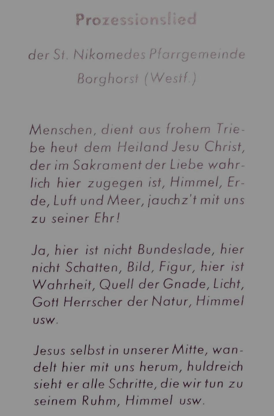 This hymn is used in a roman catholic parish in Germany. It is from a 1810 hymnal by the priest Christoph Bernhard Verspoell from Muenster, now Northrhine-Westfalia, Germany.